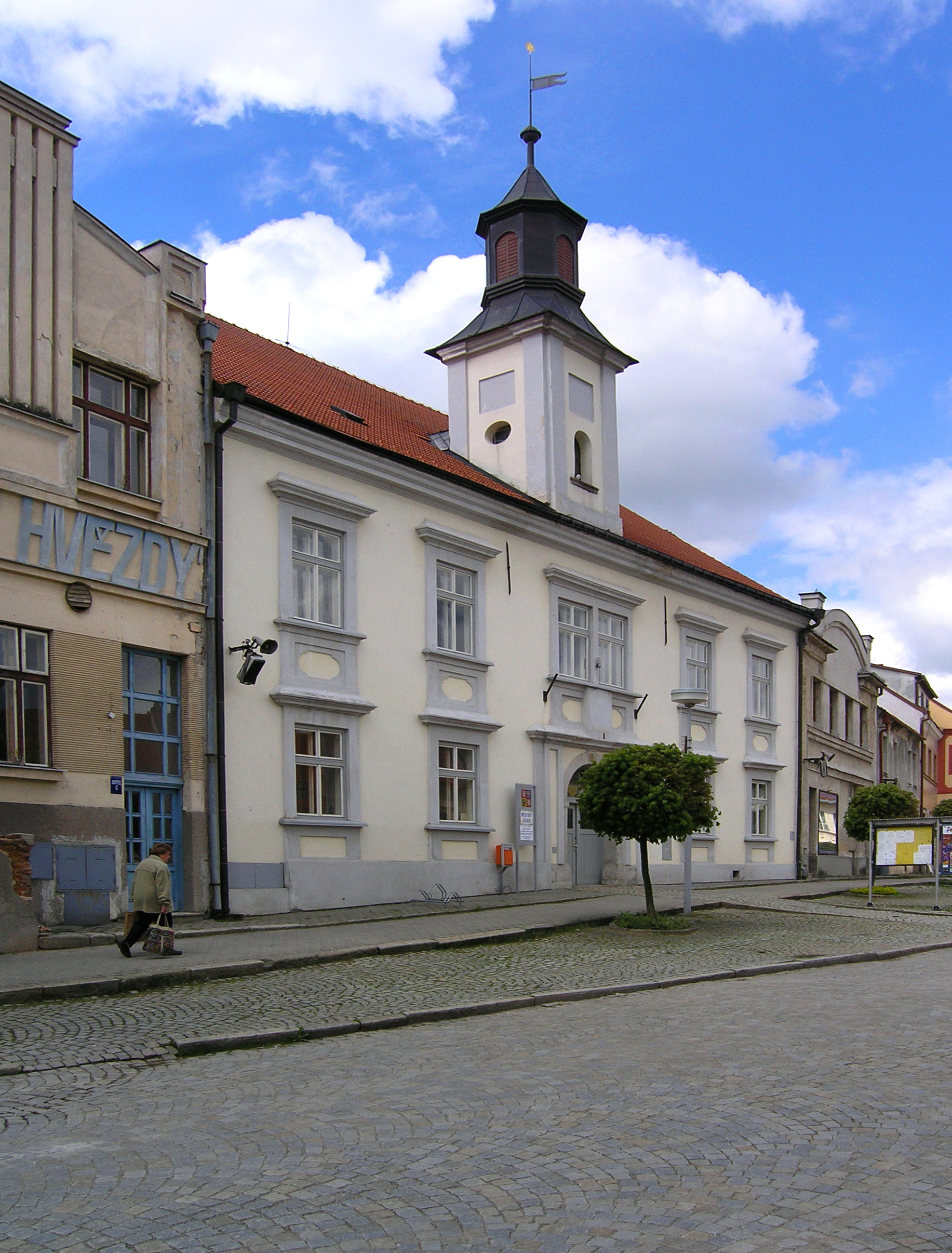 Town hall in Počátky, Czech Republic